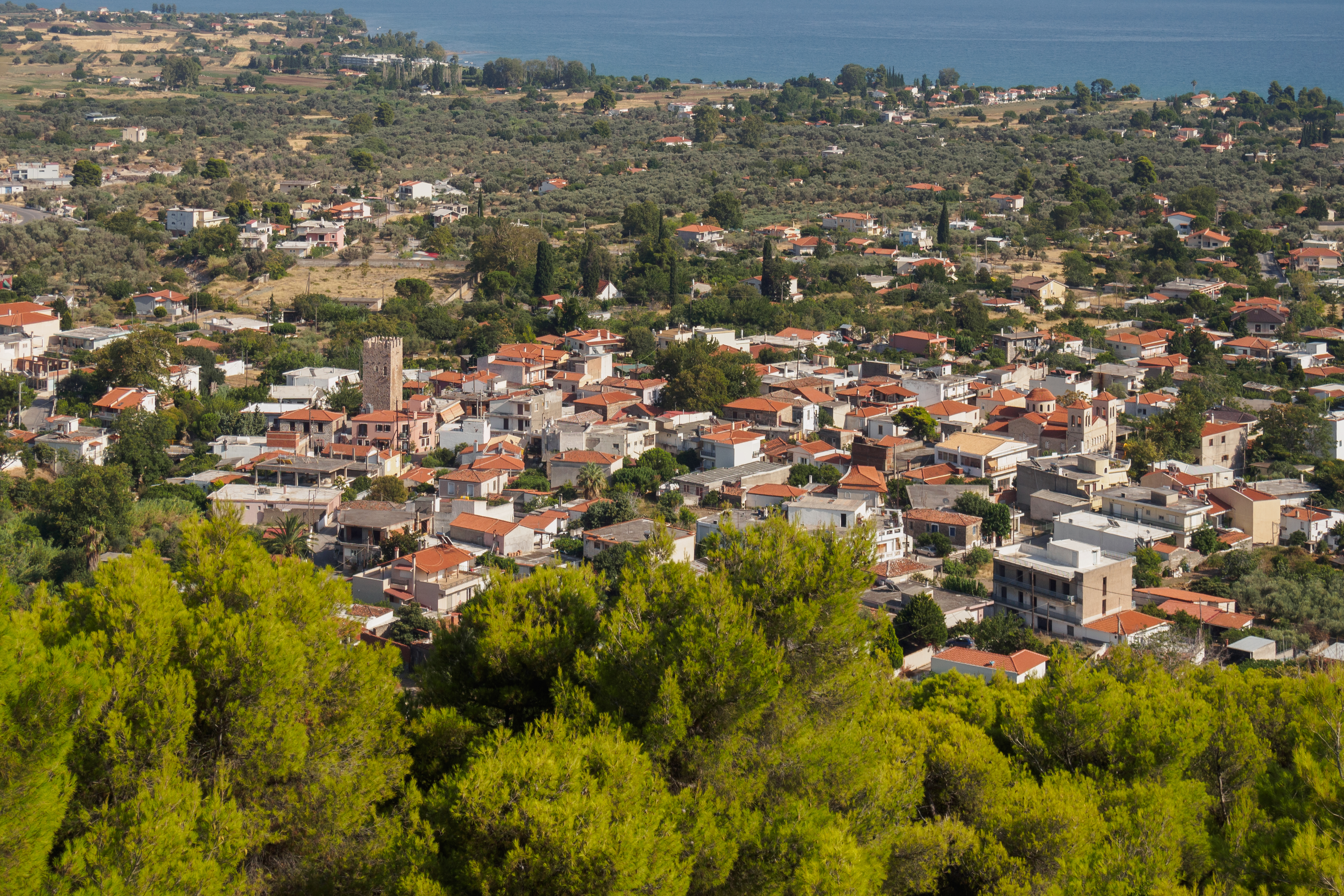 View of Politika, Euboea, from the location of Profitis Elias chapel.